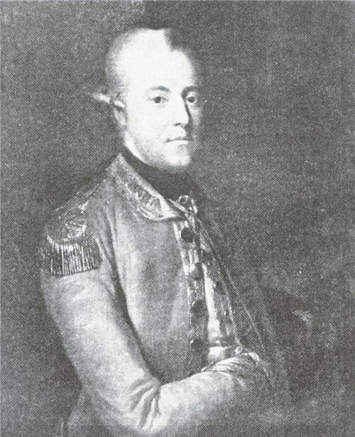 Joachim Melchior Holten Castenschiold (1743-1817), Danish lieutenant general and estate owner. Portrait painting formerly at Borreby Castle. A copy made by Ane Marie Hansen ca. 1884 also exists, as well as a miniature copy.